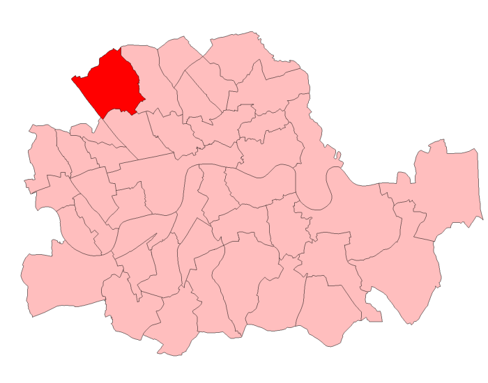 A map of Hampstead constituency within the London County Council area, as it existed from 1950 to 1974.